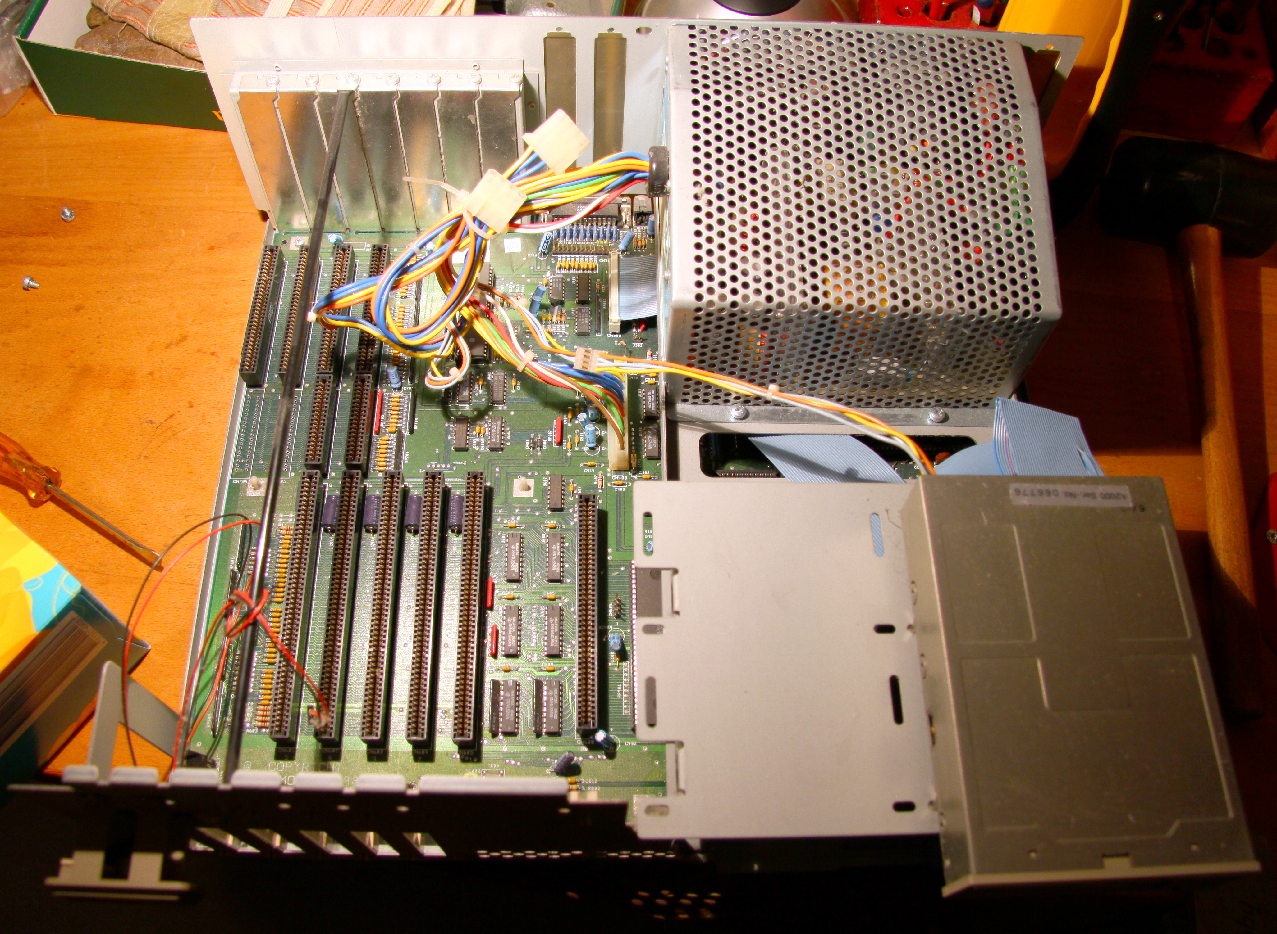 Commodore Amiga 2000, hardware revision 6.2. Inside of case. RAM and the custom sound and graphics chips (Agnus, Denise, Paula) are on the right half of the motherboard, obscured by the power supply/hard drive/disk drive assembly.